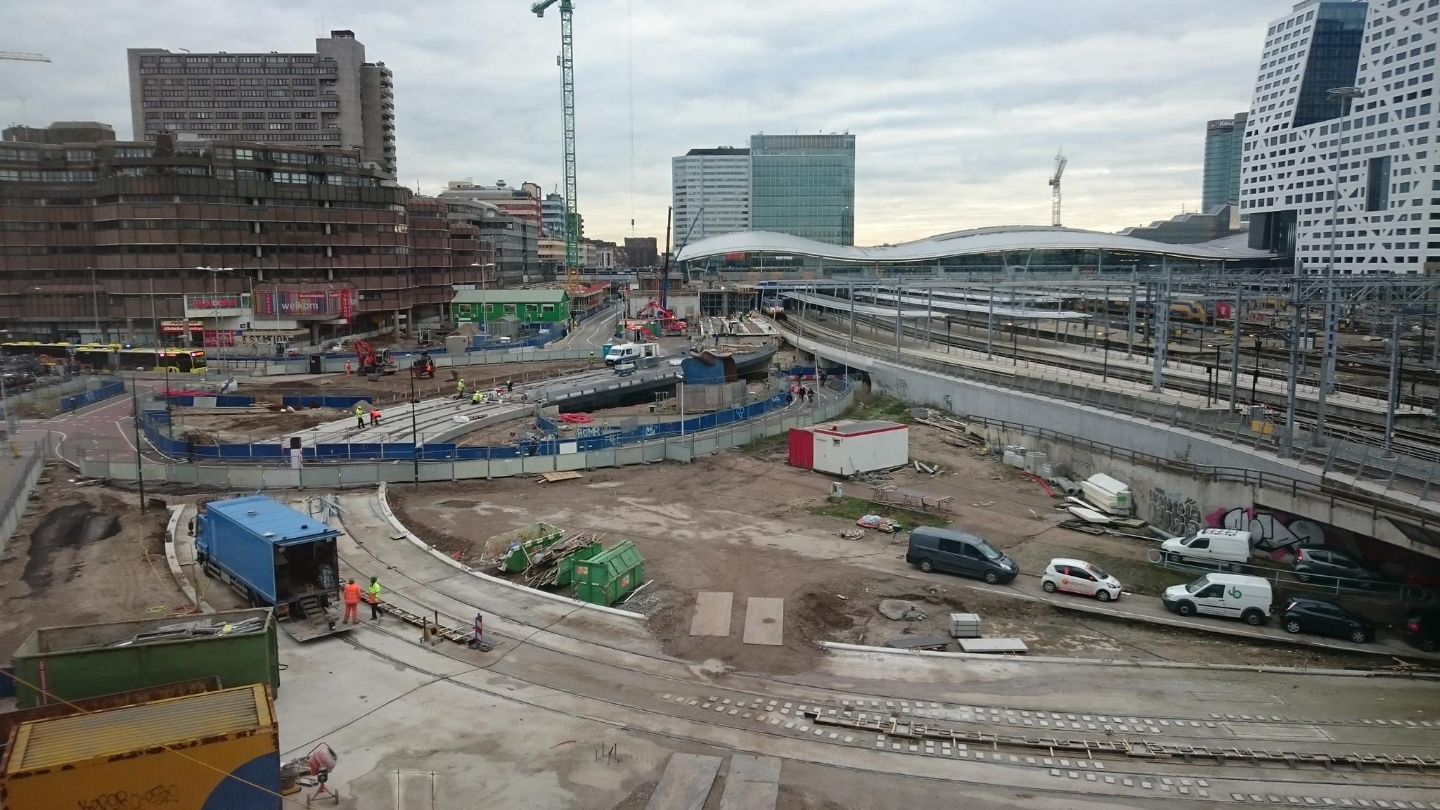 Construction of the tramway to station Utrecht Centraal.